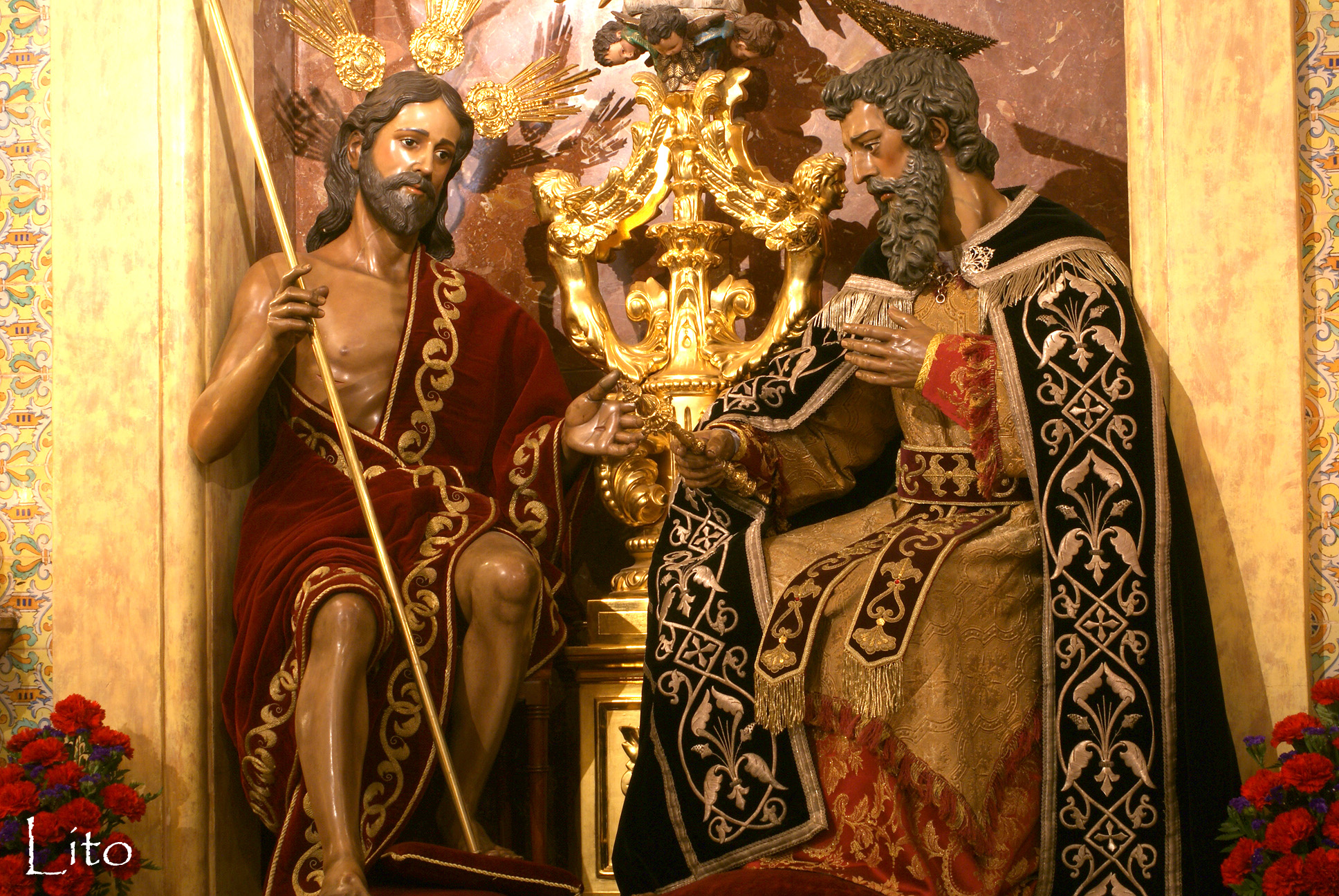 Sagrado Decreto de la Santísima Trinidad